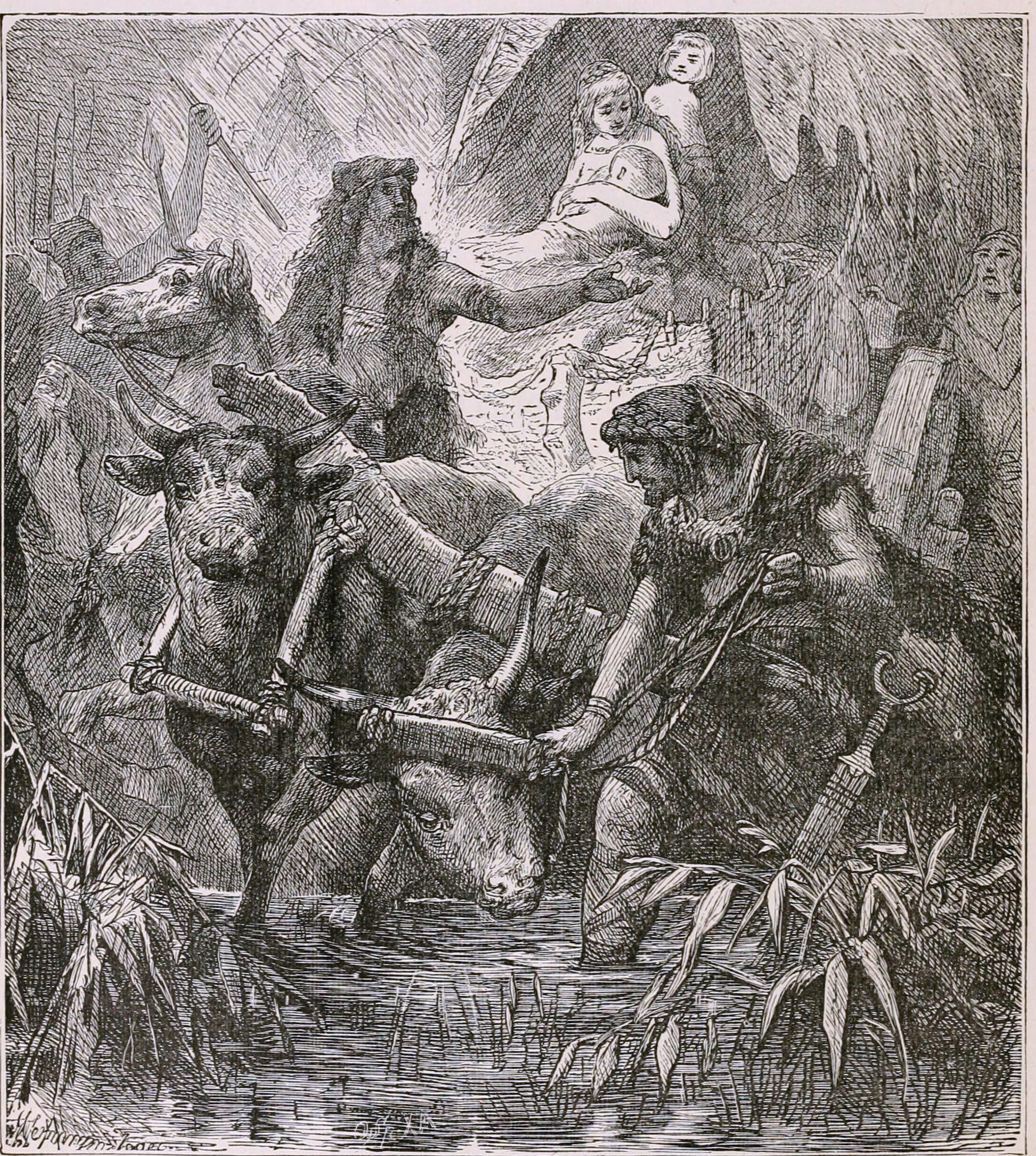 The illustrated history of the world for the English people. From the earliest period to the present time, ancient-mediaeval-modern. With many original high-class engravings Published [1881?-84?] Topics World history SHOW MORE 26 Volume 1 Publisher New York Ward, Lock Pages 928 Possible copyright status NOT_IN_COPYRIGHT Language English Call number AFU-0282 Digitizing sponsor MSN Book contributor Robarts - University of Toronto Collection robarts; toronto Scanfactors 9